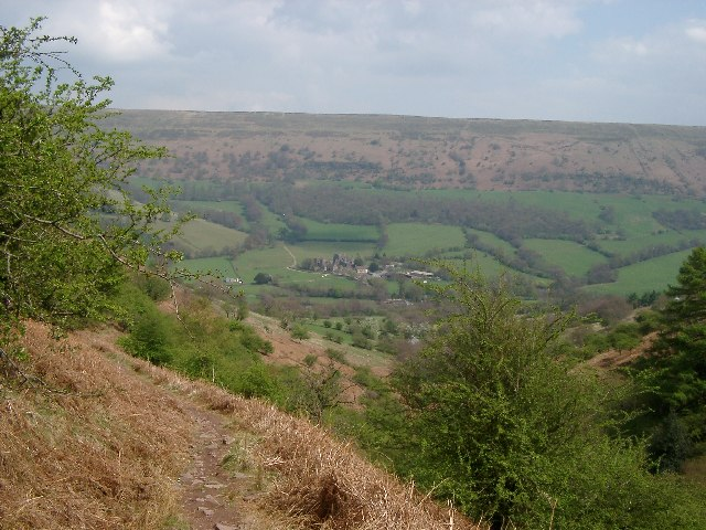 Footpath up from Llanthony. Typical hillside vegetation for the area